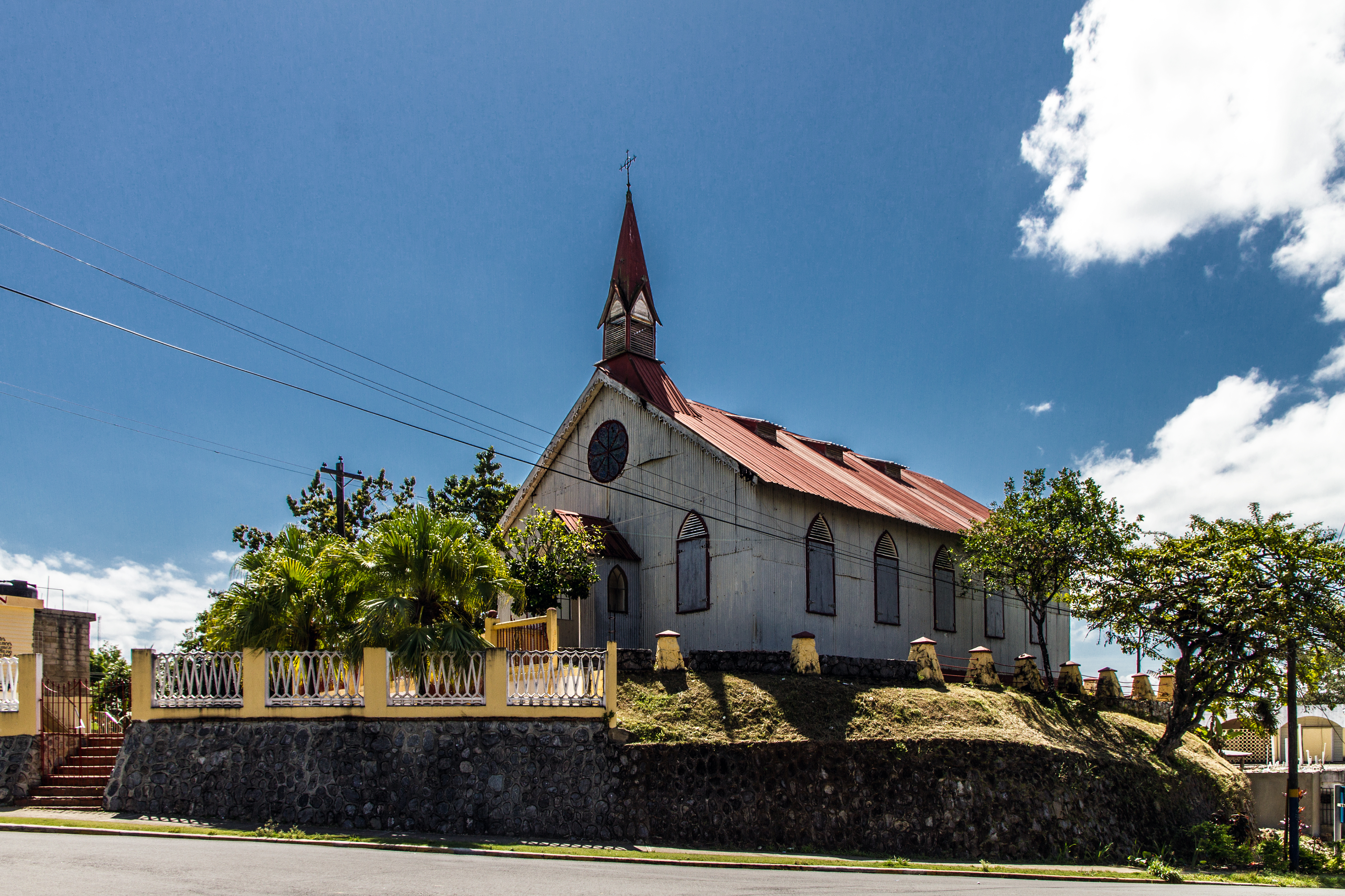 La Chorcha is the Protestant temple of descendants of U.S. migrants who arrived to the island of Hispaniola between 1824-5.